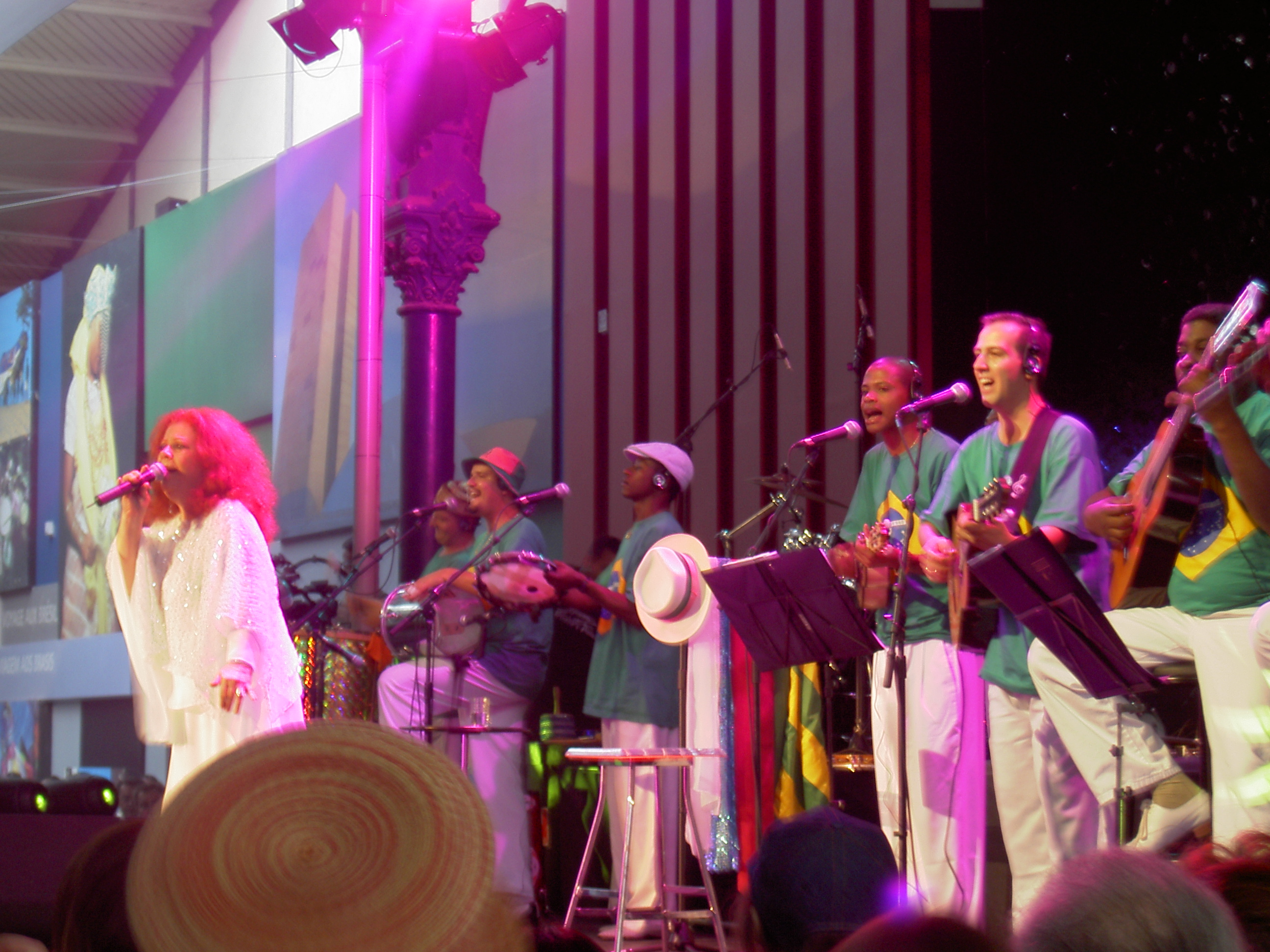 author: Alex C.